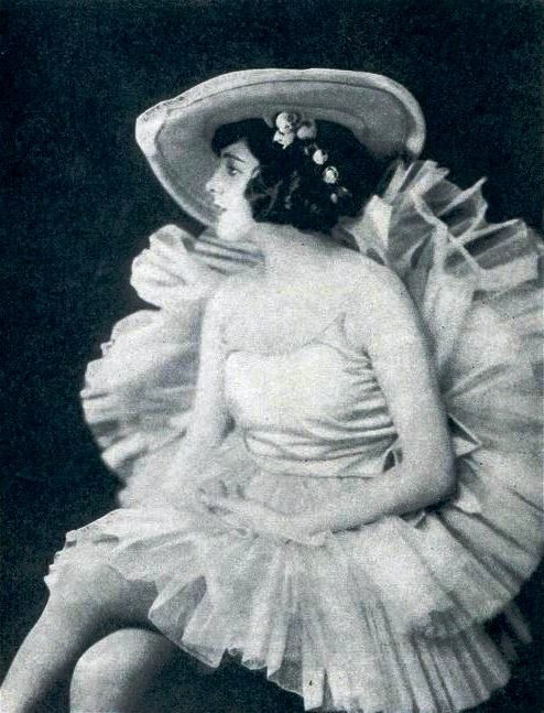 American actress Billie Dove on page 65 of the may 1922 Film Fun.